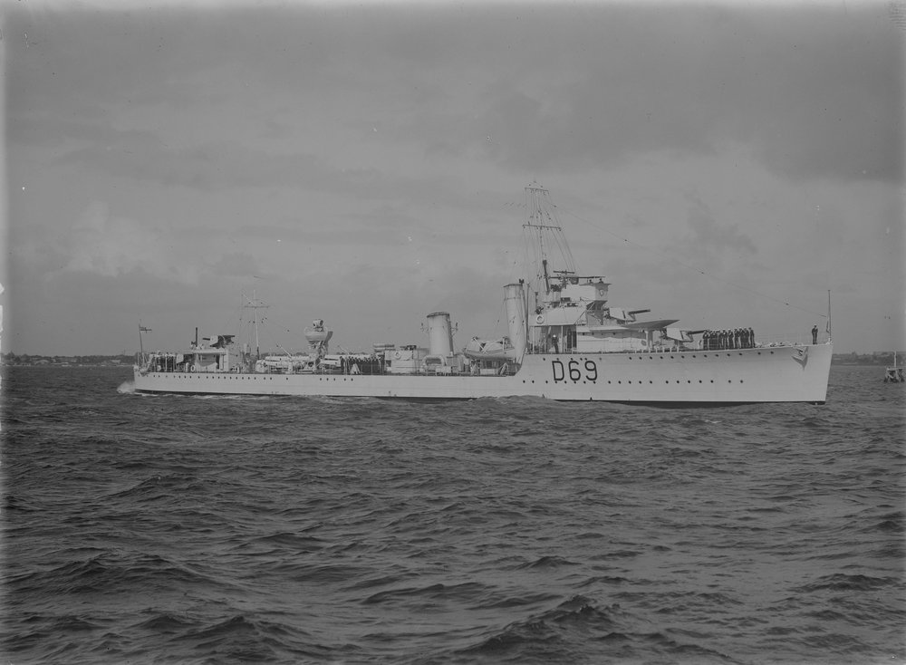 HMAS Vendetta.